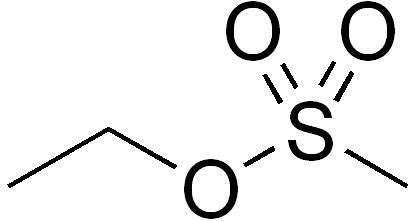 chemical structure of ethyl methanesulfonate